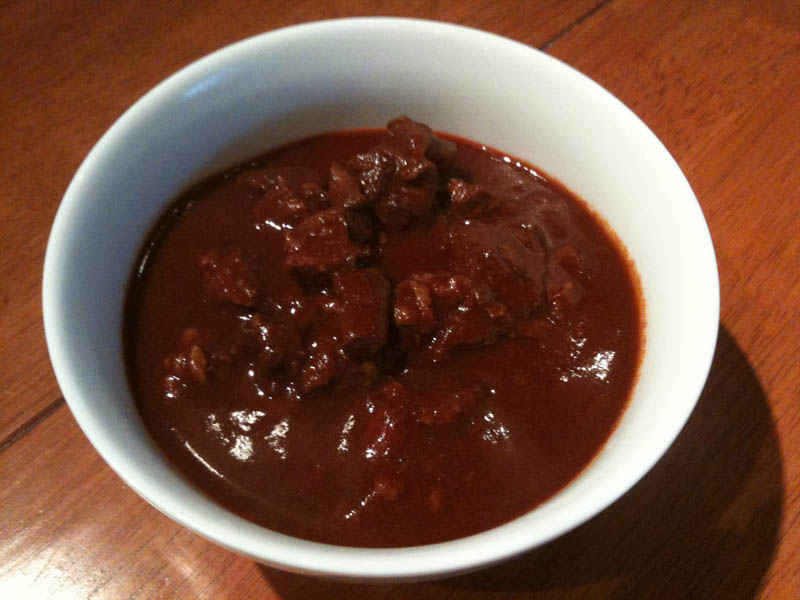 A bowl of traditional Texas Red Chili